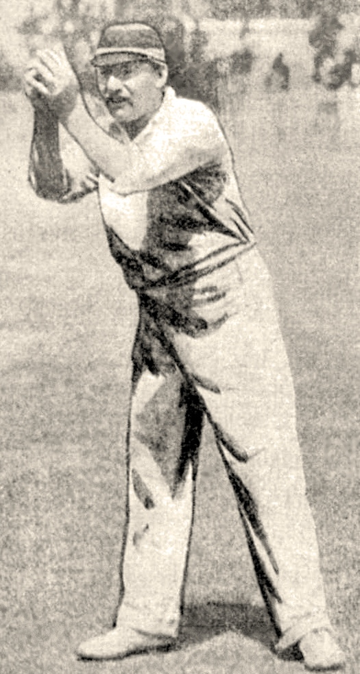 Picture of the former Australian cricket captain Harry Trott.